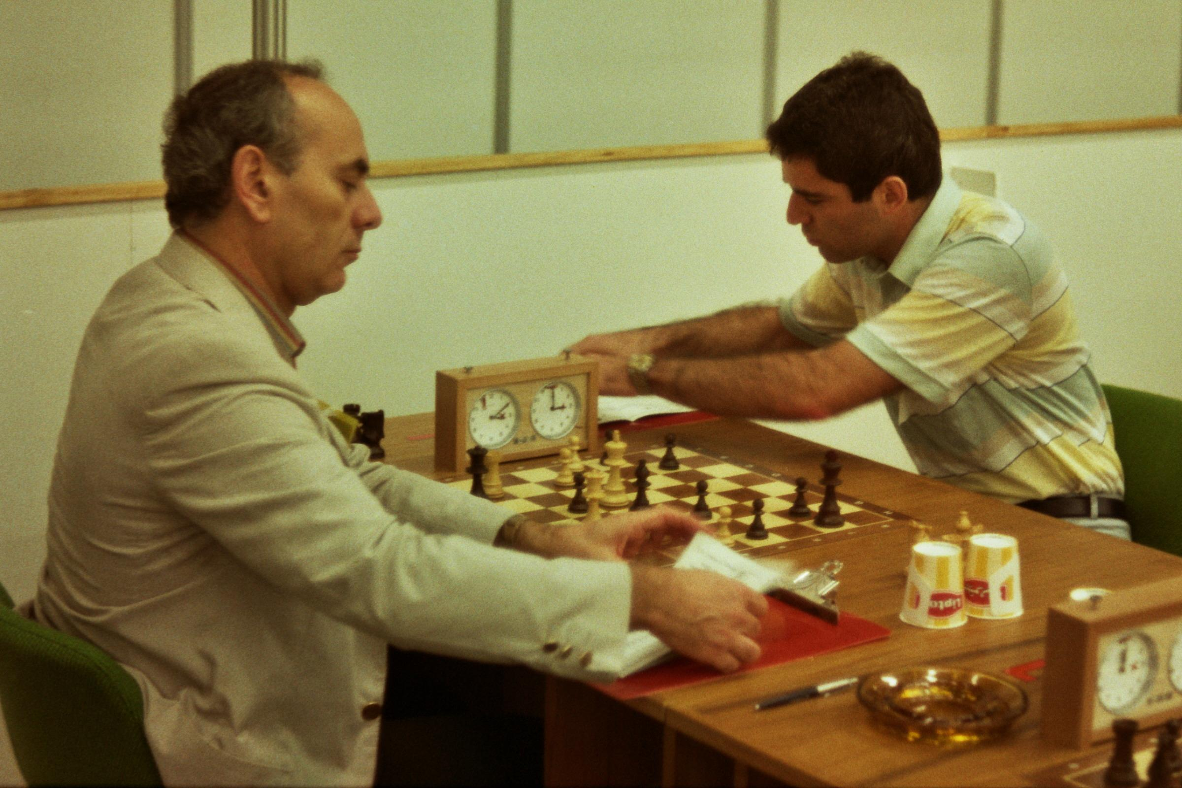 Lajos Portisch - Garry Kasparov, Chess Olympiad 1986 in Dubai, Photographer Gerhard Hund.